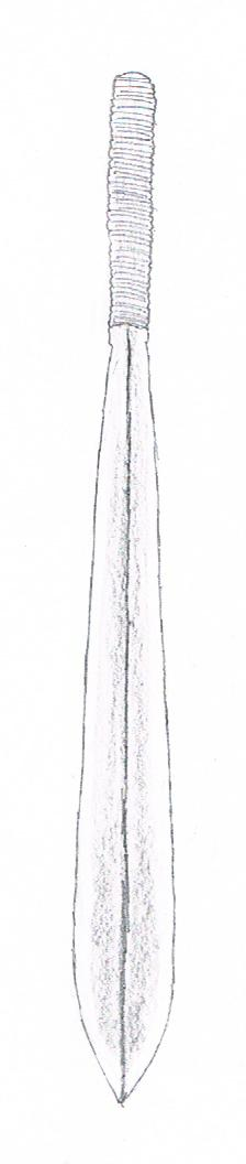 Seme